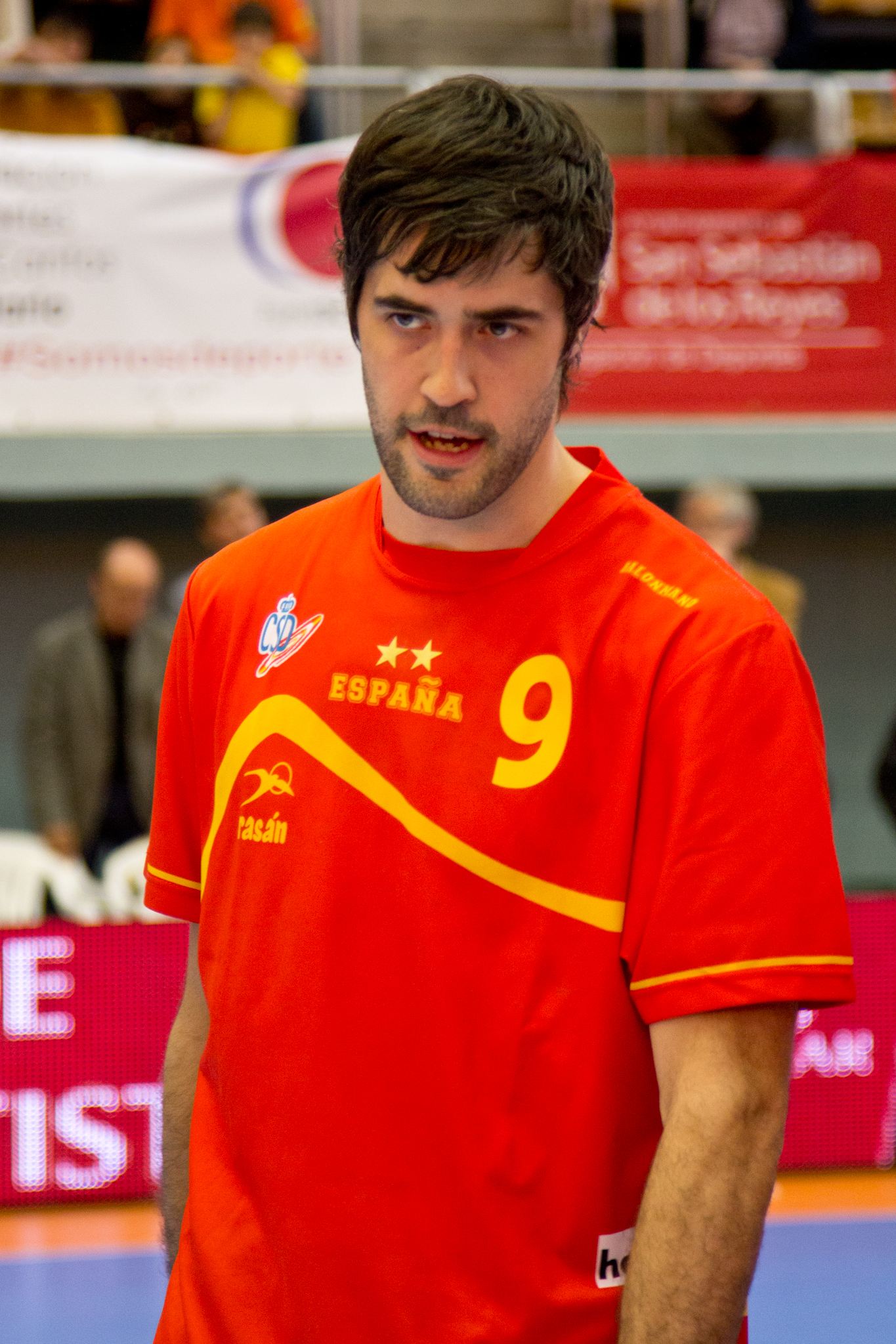 Spain Handball All Star Game 2013, held in San Sebastián de los Reyes, Madrid, Spain.